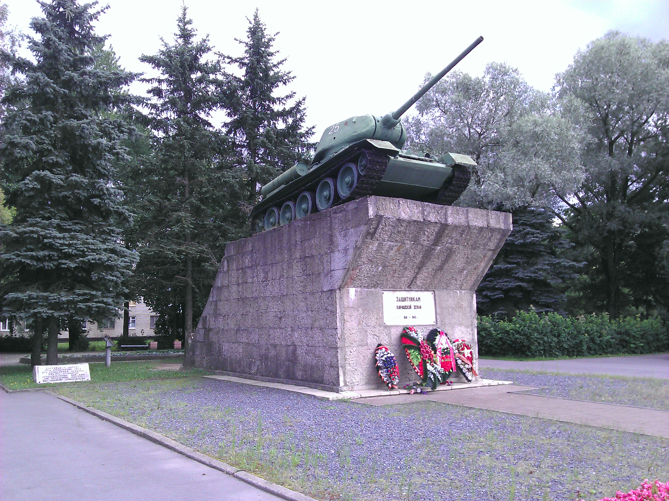 Monument to the defenders of the land of Kirishi (1941–1943) in Kirishi, Russia